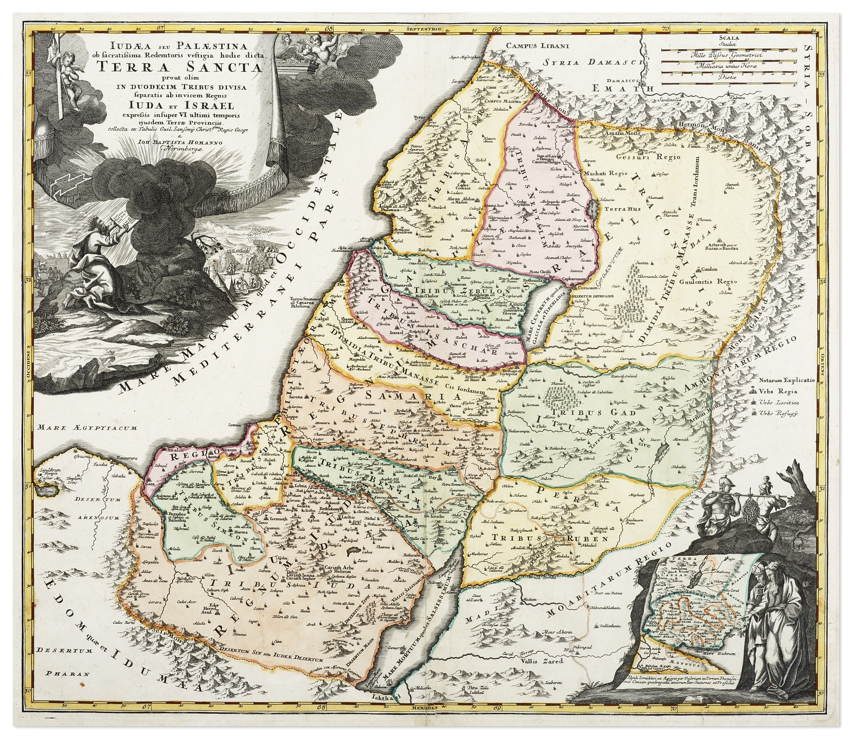 Judaea seu Palaestina ob sacratisima Redemtoris vestigia hodie dicta Terra Sancta prout olim In Duodecim Tribus Divisa separatis ab invicem Regnis Iuda Et Israel. Map of the Holy Land with an inset map of the southern Holy Land extending into Egypt with a rocky landscape with four figures. The title cartouche shows Moses accepting the Ten Commandments. Image Size:485mm x 565mm, Sheet Size:515mm x 605mm- Technique:Hand coloured copper engraving.